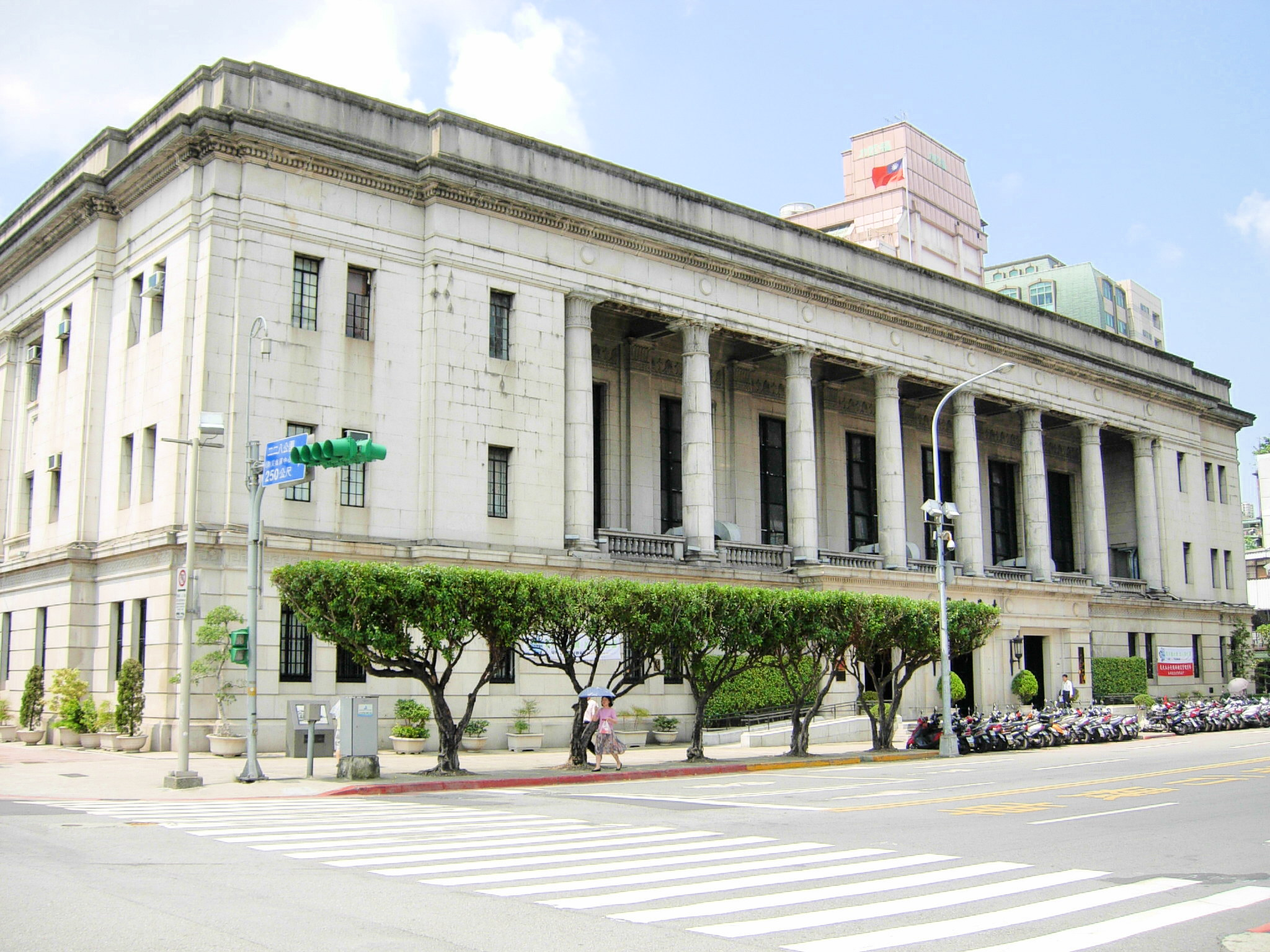 Bank of Taiwan Head Office Building, Zhongzheng District, Taipei City, Taiwan. Bân-lâm-gú: Tâi-uân Gîn-hâng Tsóng-hâng Îng-gia̍p-pōo tī Tâi-uân Tâi-pak-tshī Tiong-tsìng-khu. 臺灣銀行總行營業部佇臺灣臺北市中正區。